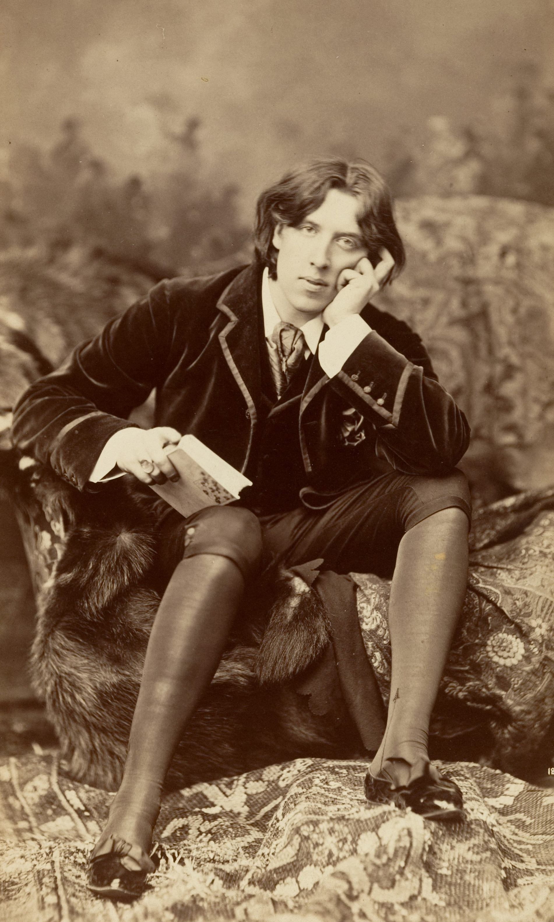 Albumen silver print. Metropolitan Museum of Art. Gilman Collection, Purchase, Ann Tenenbaum and Thomas H. Lee Gift, 2005. Accession Number: 2005.100.120. This photograph - n° 18 of the sery - "became the subject of a copyright infringement suit by Sarony against the Burrow-Giles Lithographic Company, which had marketed unauthorized lithograph trade cards containing the image. The federal trial court for the Southern District of New York awarded a $610 judgment to Sarony (the equivalent today of over $13,000). The judgment was affirmed by the U.S. Circuit Court for the Southern District of New York, and subsequently by the Supreme Court of the United States" [1] (cf. Burrow-Giles Lithographic Co. v. Sarony).